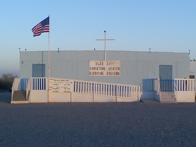 Photo of the Slab City Christian Center taken in October 2007